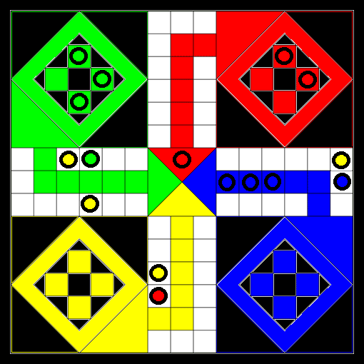 Ludo strategy question - What piece should the yellow participant move, if the dice result is 1?